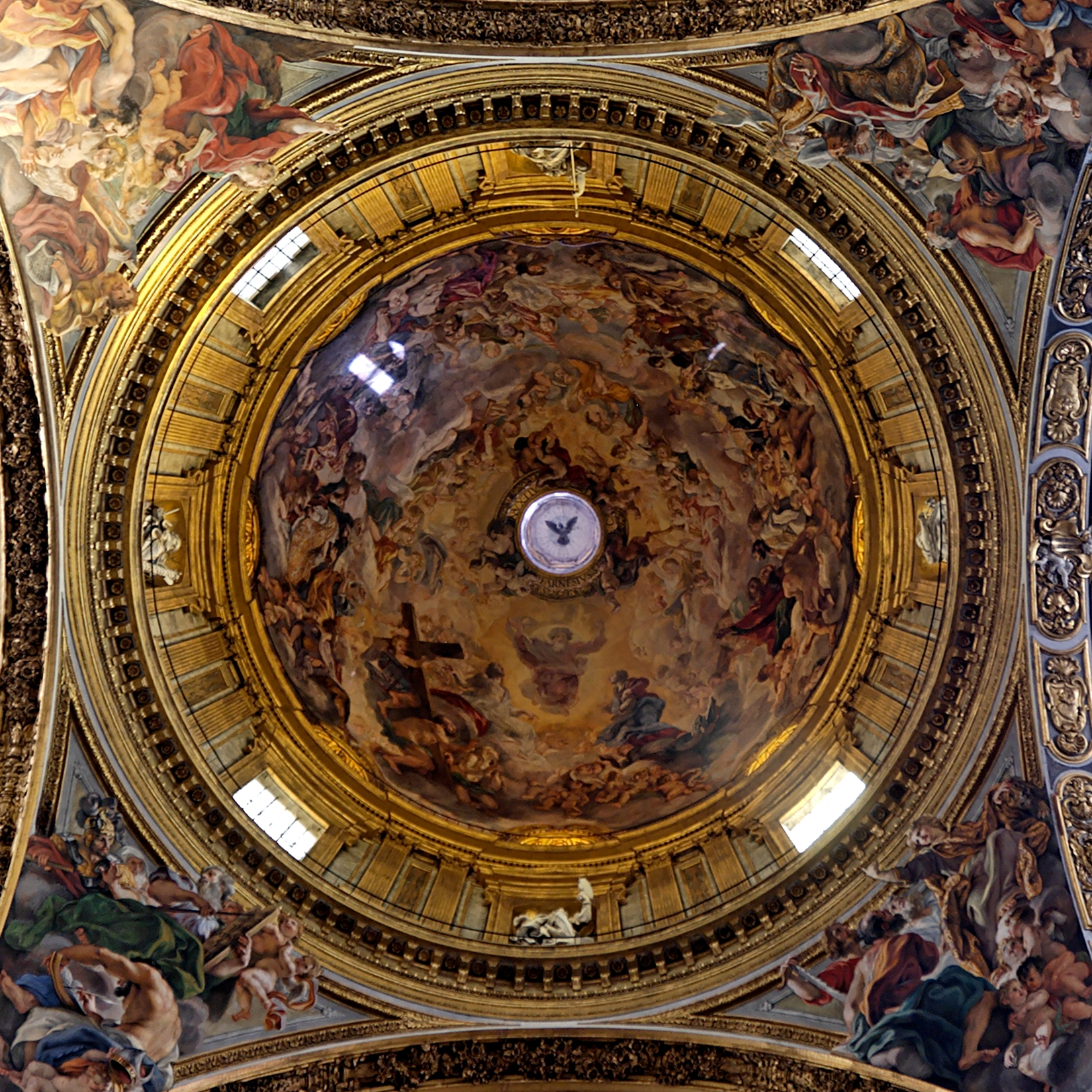 Frescoes of the cupola of the Gesù (Rome, Italy) by Baciccia.